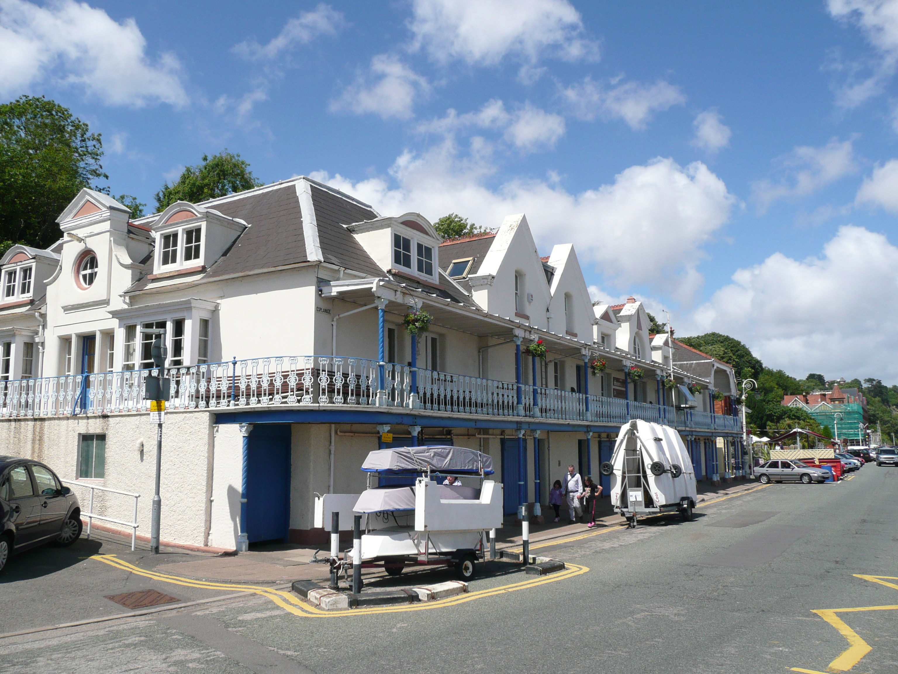 Penarth boat houses on the sea front